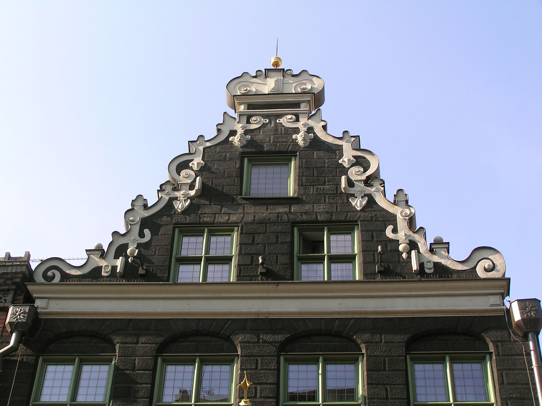 Toruń, hosue at 7 Małe Garbary Str.